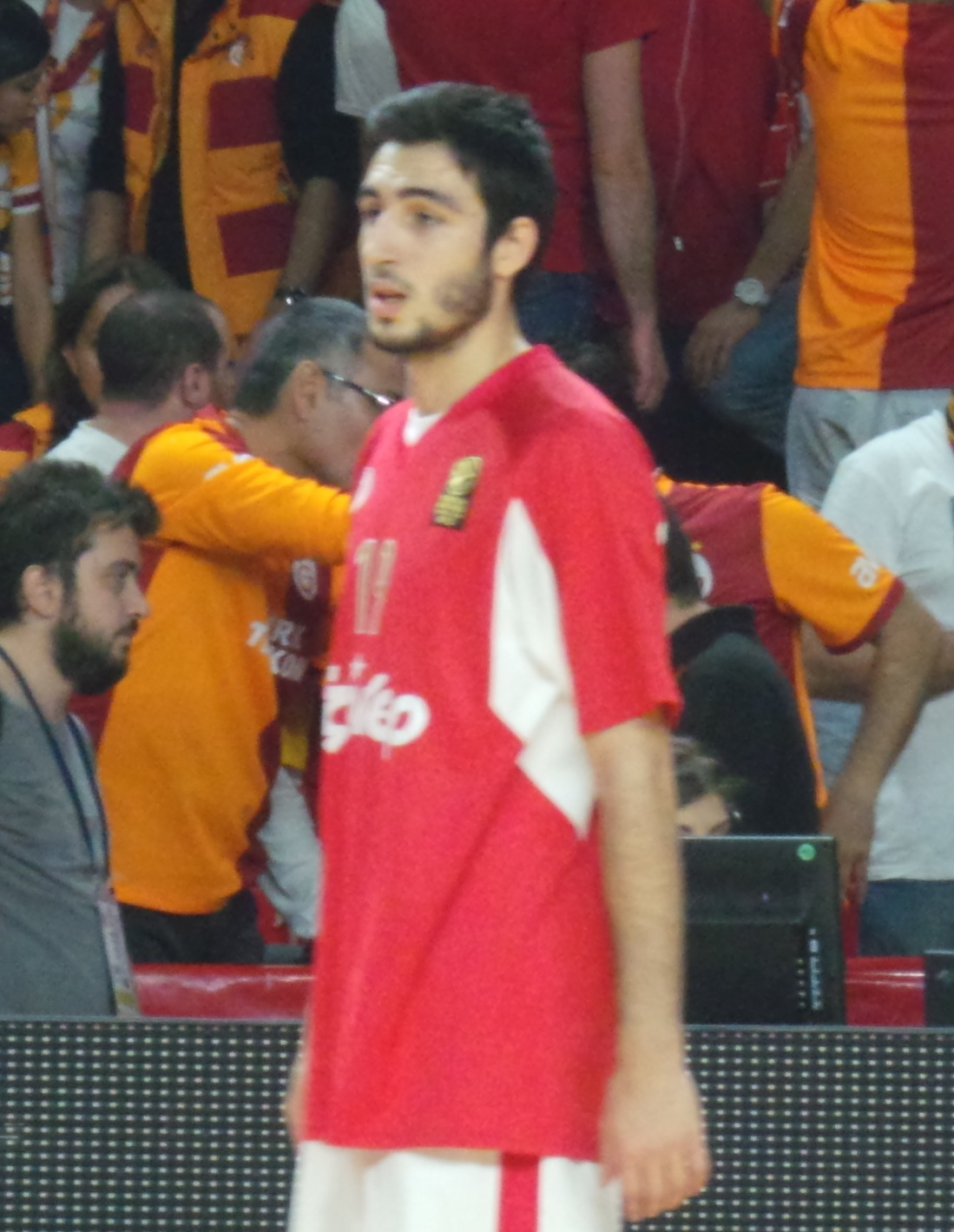 Dimitrios Katsivelis